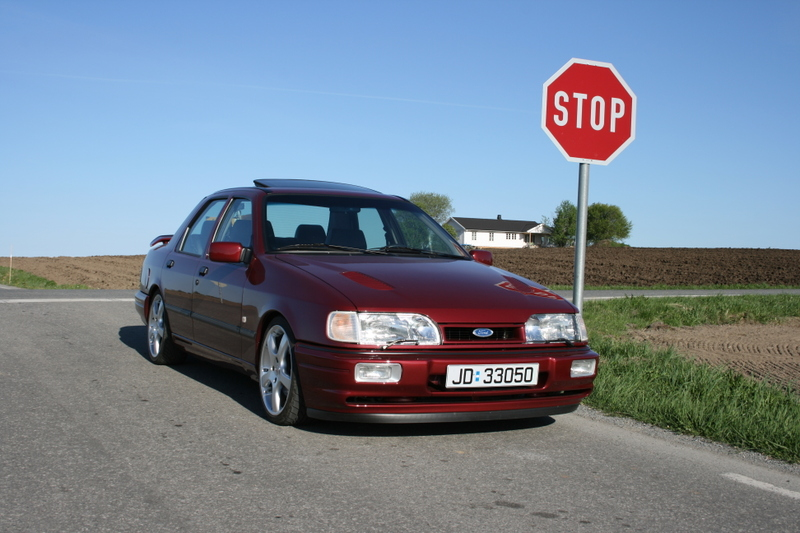 Ford Sierra RS Cosworth 4x4 1992. Shot taken somewhere in Norway.